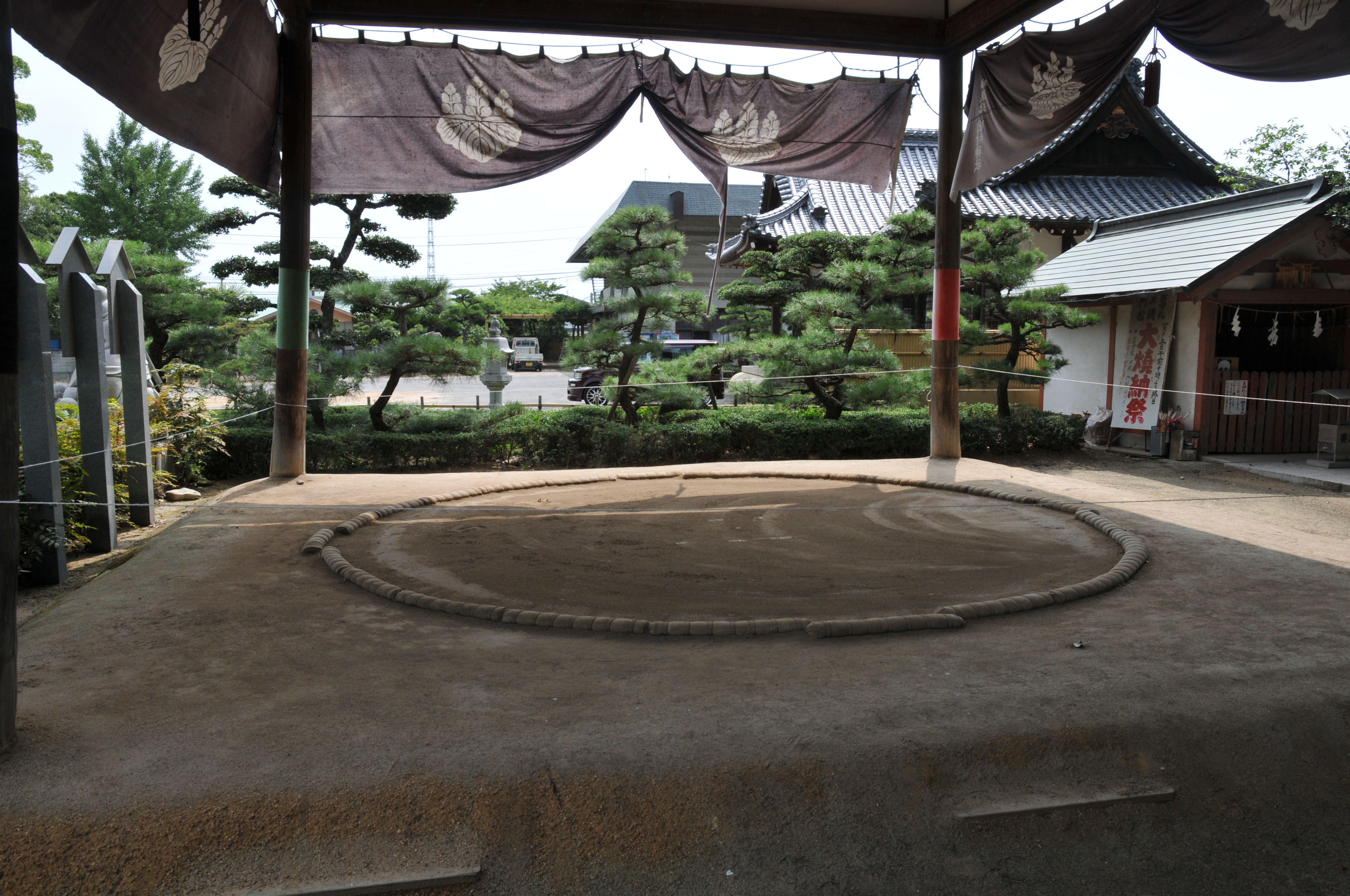 Sumō arena, Tamura-jinja